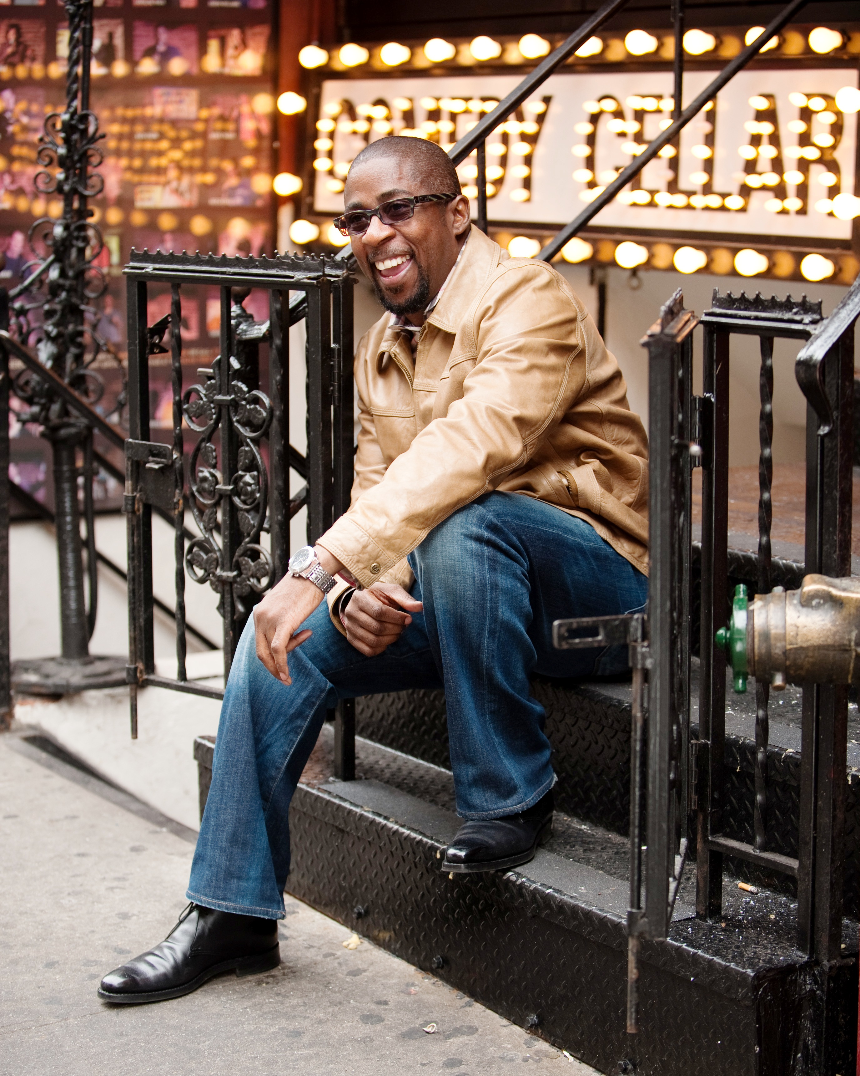 Promotional image of veteran comedian Keith Robinson outside New York's Comedy Cellar.